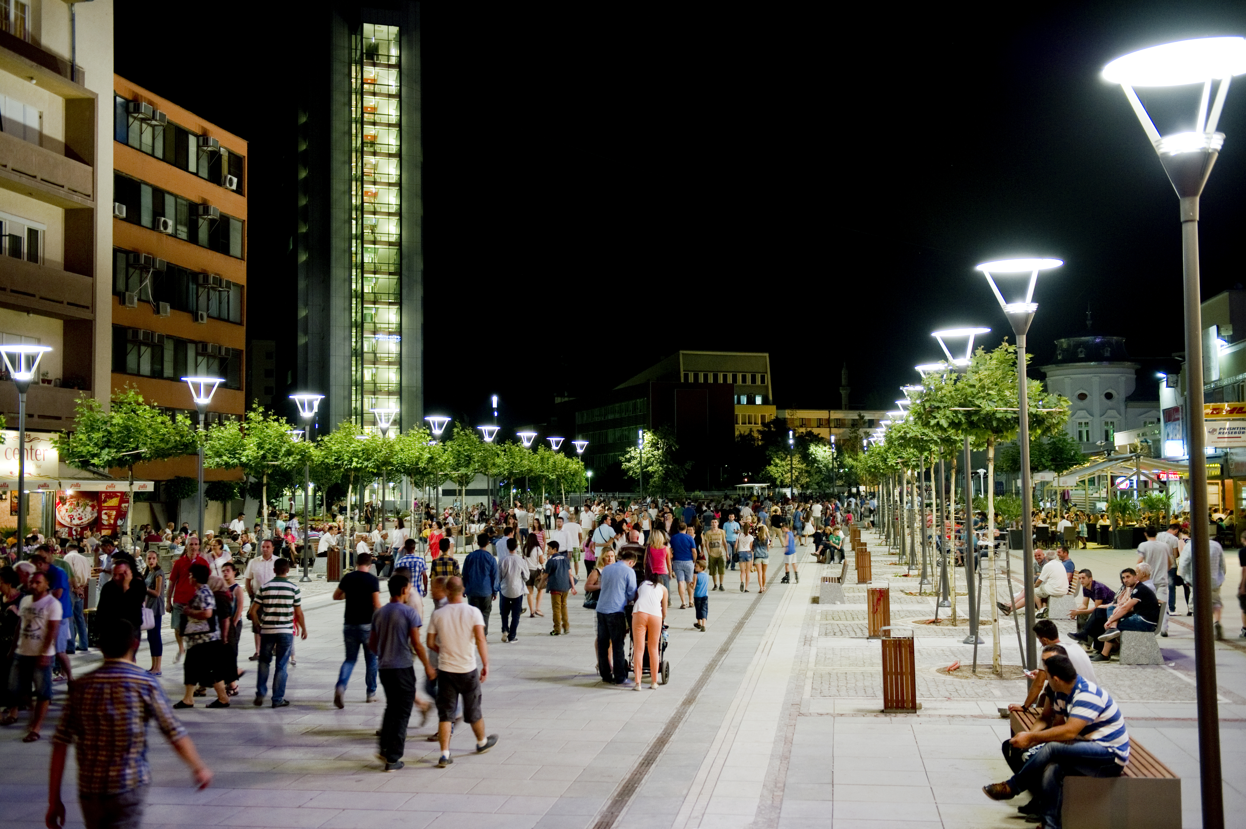 Sheshi 2